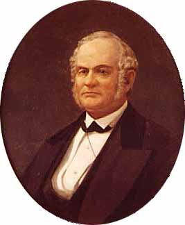 Alexander Ramsey (1815-1903)